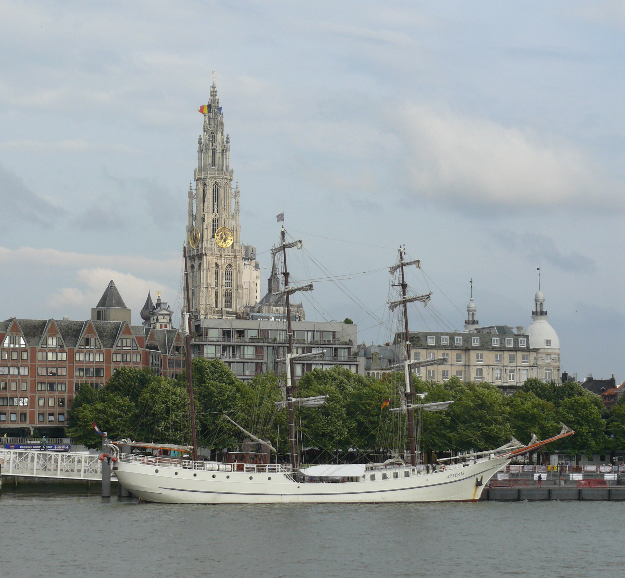 The three masted barque Artemis during the Tall Ships' Race 2010 in Antwerp. The Artemis was built in Norway in 1926 and served as a whaling ship until the end of the forties, thereafter as a tramp freighter between South America and Asia.